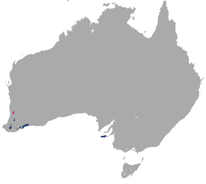 Tammar Wallaby (Macropus eugenii) range (blue — native, pink — reintroduced)